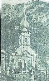 the "Marienfels" Roman Catholic shrine church in Tschiklowa (Ciclova Montană, Csiklovabánya) in the Banat, Romania